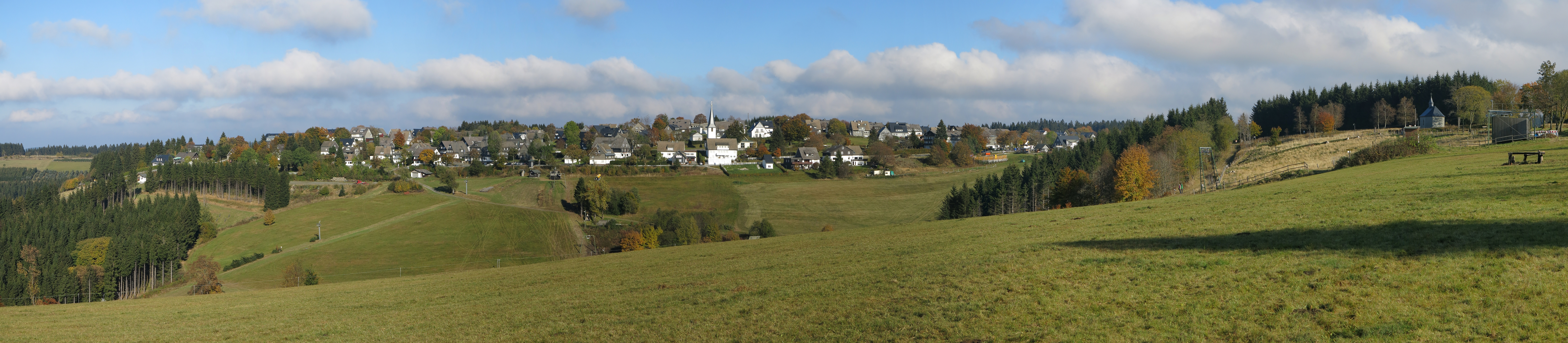 Altastenberg near Winterberg in the Sauerland, seen from Southwest.